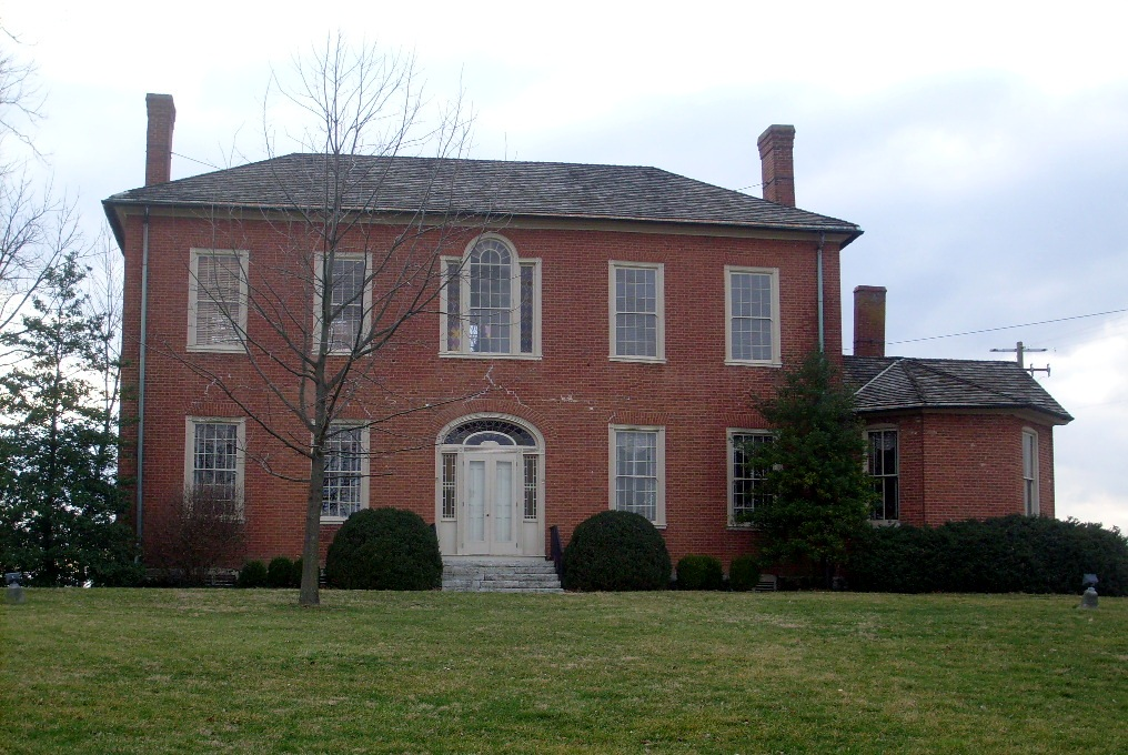 Holly Rood, the residence of Kentucky Governor James Clark